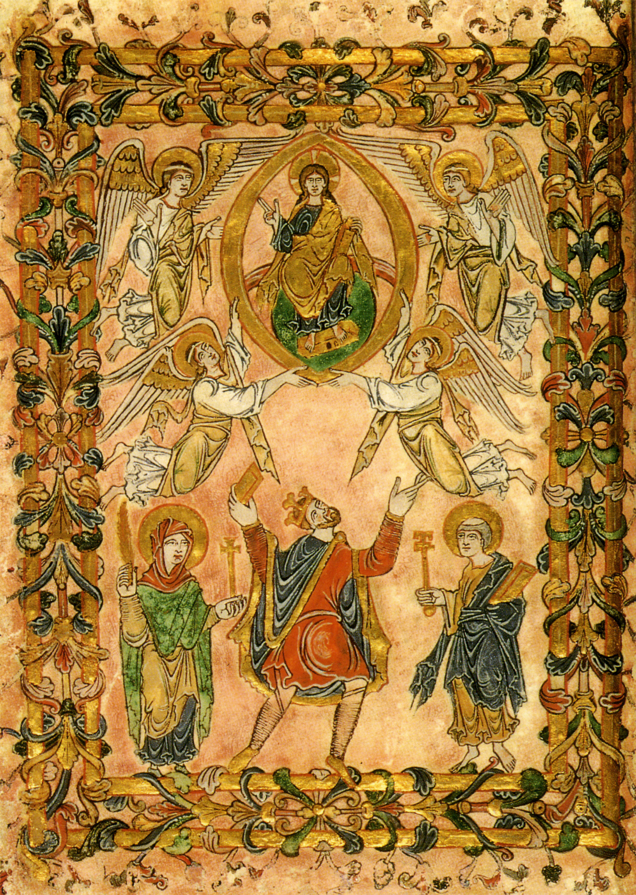 This image is a JPEG version of the original PNG image at File: Edgar from Winchester Charter.png. Generally, this JPEG version should be used when displaying the file from Commons, in order to reduce the file size of thumbnail images. However, any edits to the image should be based on the original PNG version in order to prevent generation loss, and both versions should be updated. Do not make edits based on this version. See here for more information. Edgar, c.943/4-75. Illuminated manuscript. Charter of Edgar to the New Minster, Winchester, 966. MS Cott. Vesp A. VIII, folio 2, verso, British Library.